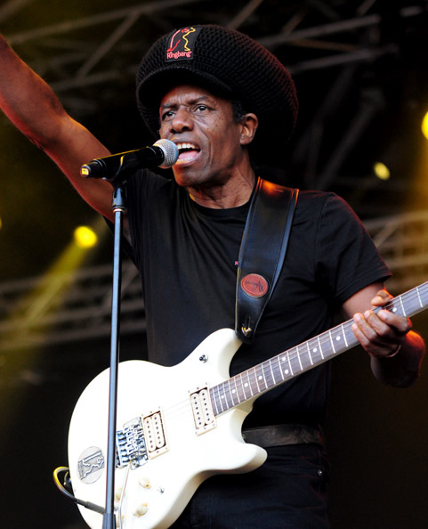 Eddy Grant at Supreme Court Gardens.